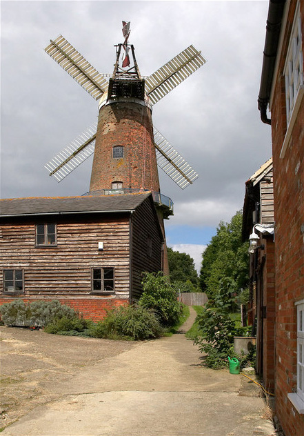 Quainton Windmill A complete six storey tower mill built in brick, said to have been constructed from the inside in the manner of a chimney stack. It's still in the ownership of the family that built it and has been brought back to working order after years of restoration.Quainton Windmill, also known as Banner Mill, is some 20m high and has a loading door on the second floor and a reefing gallery on the third. There are three pairs of underdrift stones located on the fourth floor. The iron brake-wheel is a single casting.It was built by James Anstiss and is still in Anstiss family ownership. When it was half built, a temporary thatch roof was installed while the builder went to America — the mill was not completed until his return. Early in the mill's life, it was fitted with a steam engine. However, it was wind worked until 1881. Milling ceased completely in 1900. The building stood for many years with no cap or sails until 1974, when the owner formed the Quainton Windmill Society. The Society spent 18 years restoring the mill. When work began, the building had an earth floor and no window glass but had an aluminium cap. Restoration work spread over 23 years during which the mill gained a white dome cap, four patent double shuttered anticlockwise sails and a red and white eight-blade fantail. In early 1997, the restored mill ground its first bag of wheat in nearly a century.